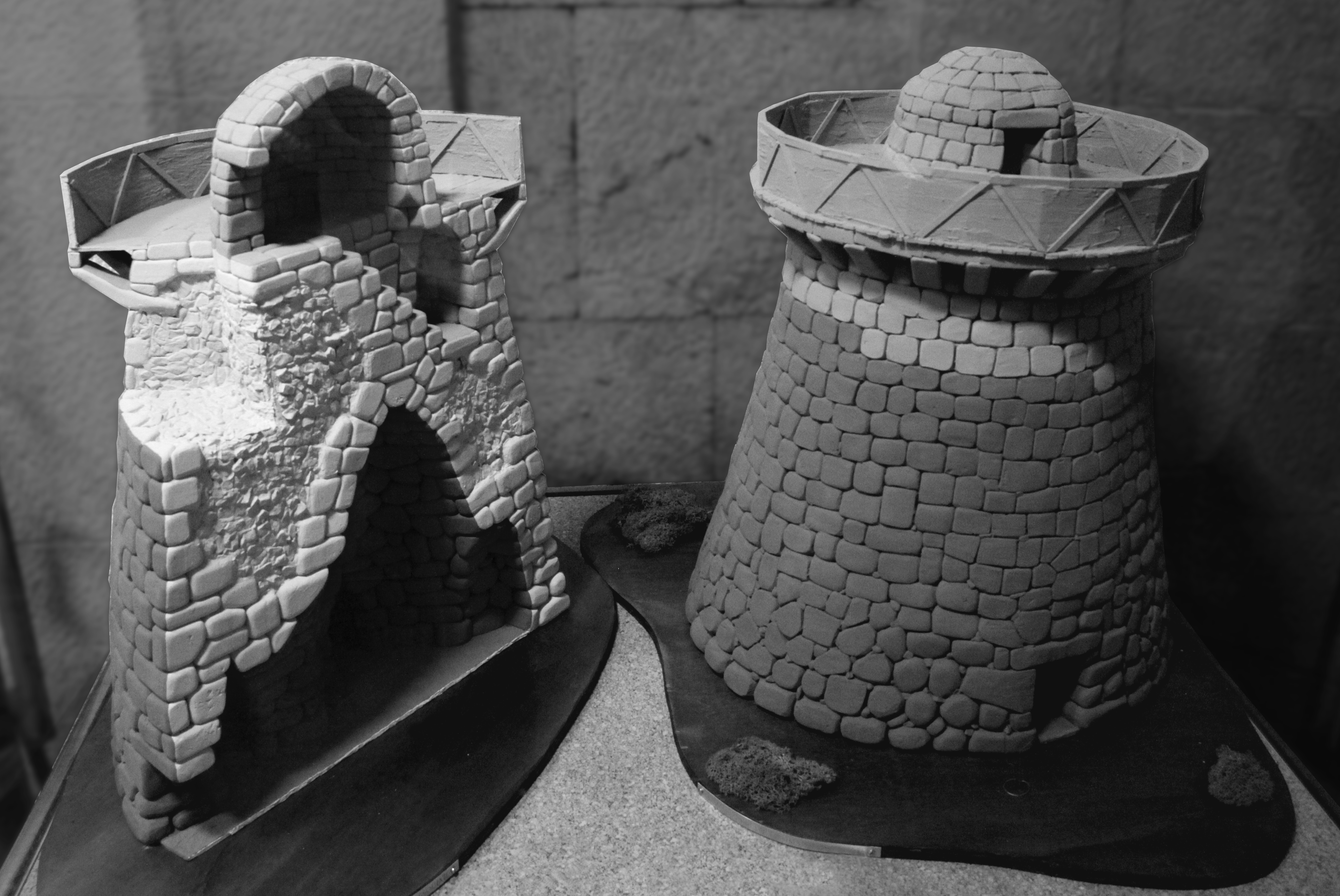 Model of nuraghe (tower with "tholos") at Museo Archeologico di Caglari